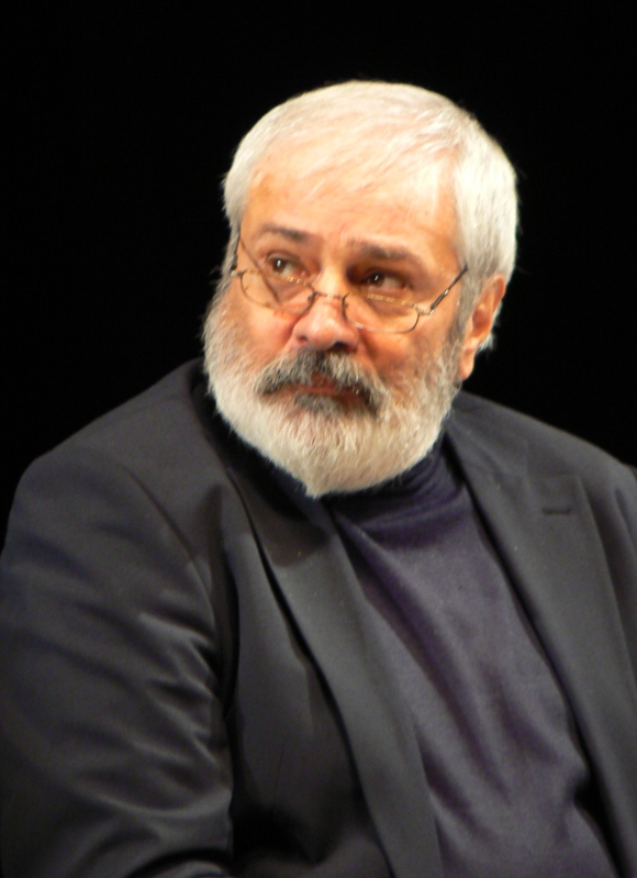 Bulgarian actor Ventseslav Kisyov